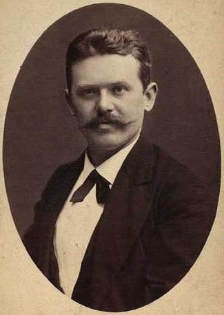 Carl Christian Andersen (1849-1906), Danish painter and conservator